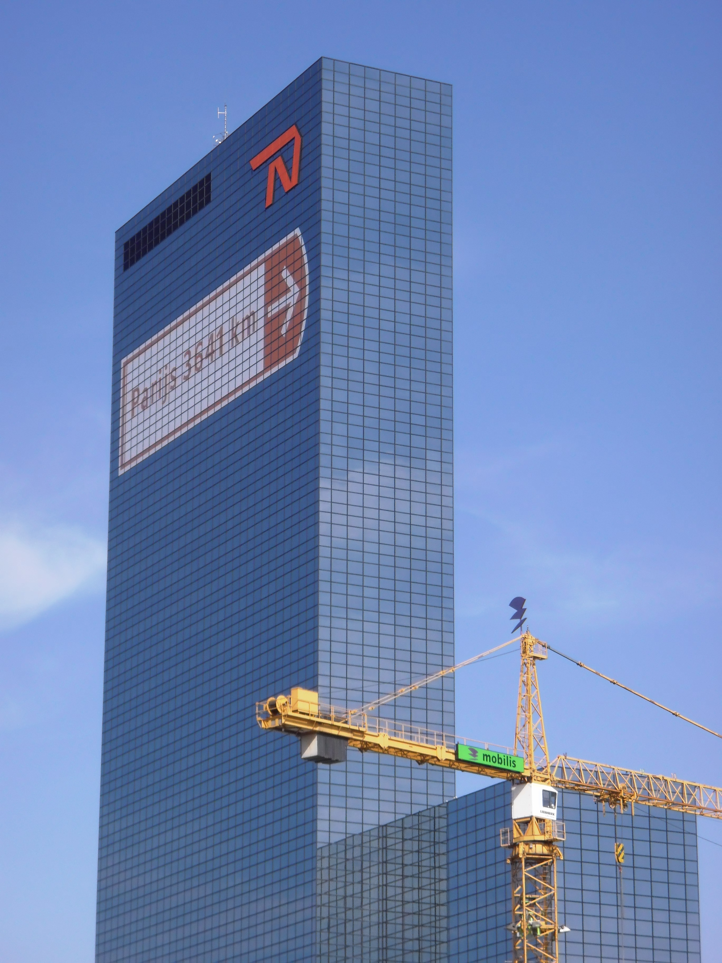 Advertising (in the form of a typical dutch bicycle traffic sign) for the start of the Tour de France in Rotterdam in 2010 on the "Delftse Poort" building in this city.